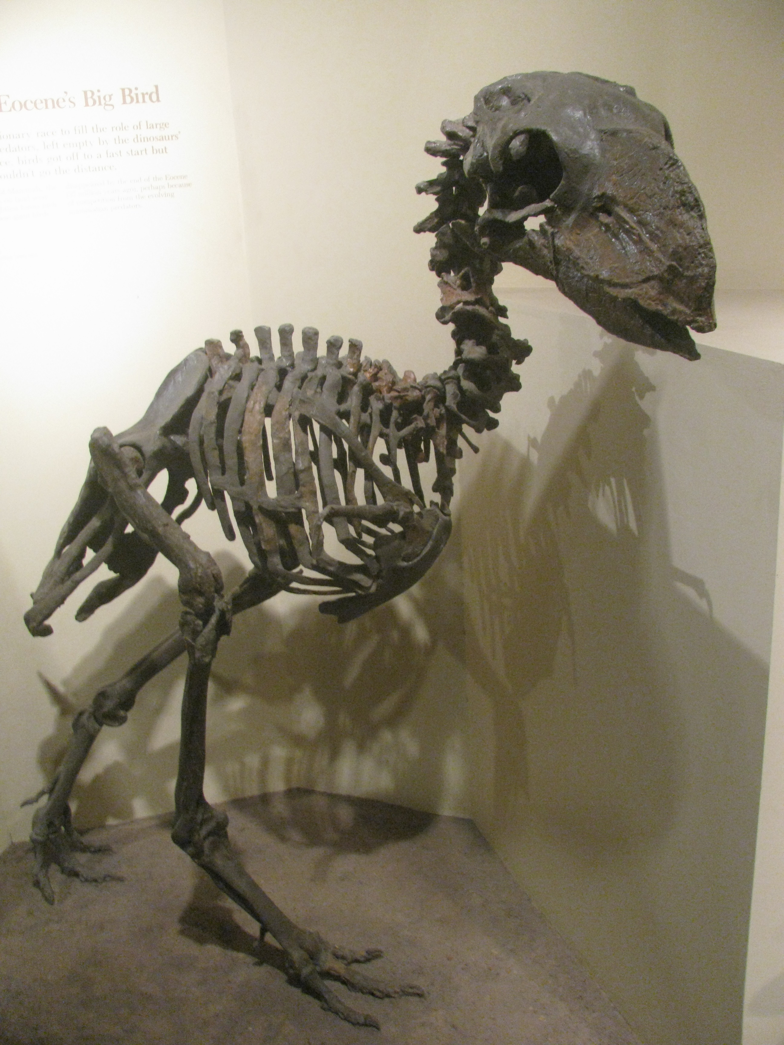 Diatryma, a carnivorous, flightless bird that was one of the top predators in the post-dinosaur era.